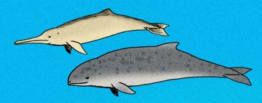 Reconstruction of the marine platanistoid dolphin Parapontoporia pacifica (top) with the primitive porpoise Piscolithax tedfordi, from the late Miocene of Baja California.